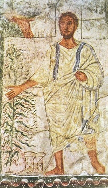 Moses and the burning bush. Painting from Dura Europos Synagogue, 244-245 C.E. Fresco detail Date: last phase of painting cycle dated by Aramaic inscription to 244 C.E.; Gabrielle Sed-Rajna, Abcedaire du Judaïsme, Paris: Frammarion, 2000, p. 26: 245 C.E.